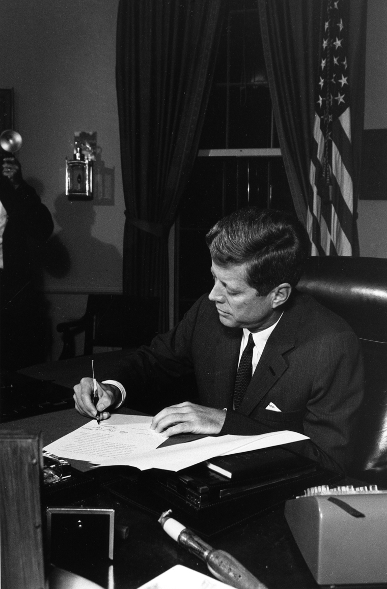 ST-459-10-62 23 October 1962 President Kennedy signs the Proclamation for Interdiction of the Delivery of Offensive Weapons to Cuba. White House, Oval Office.